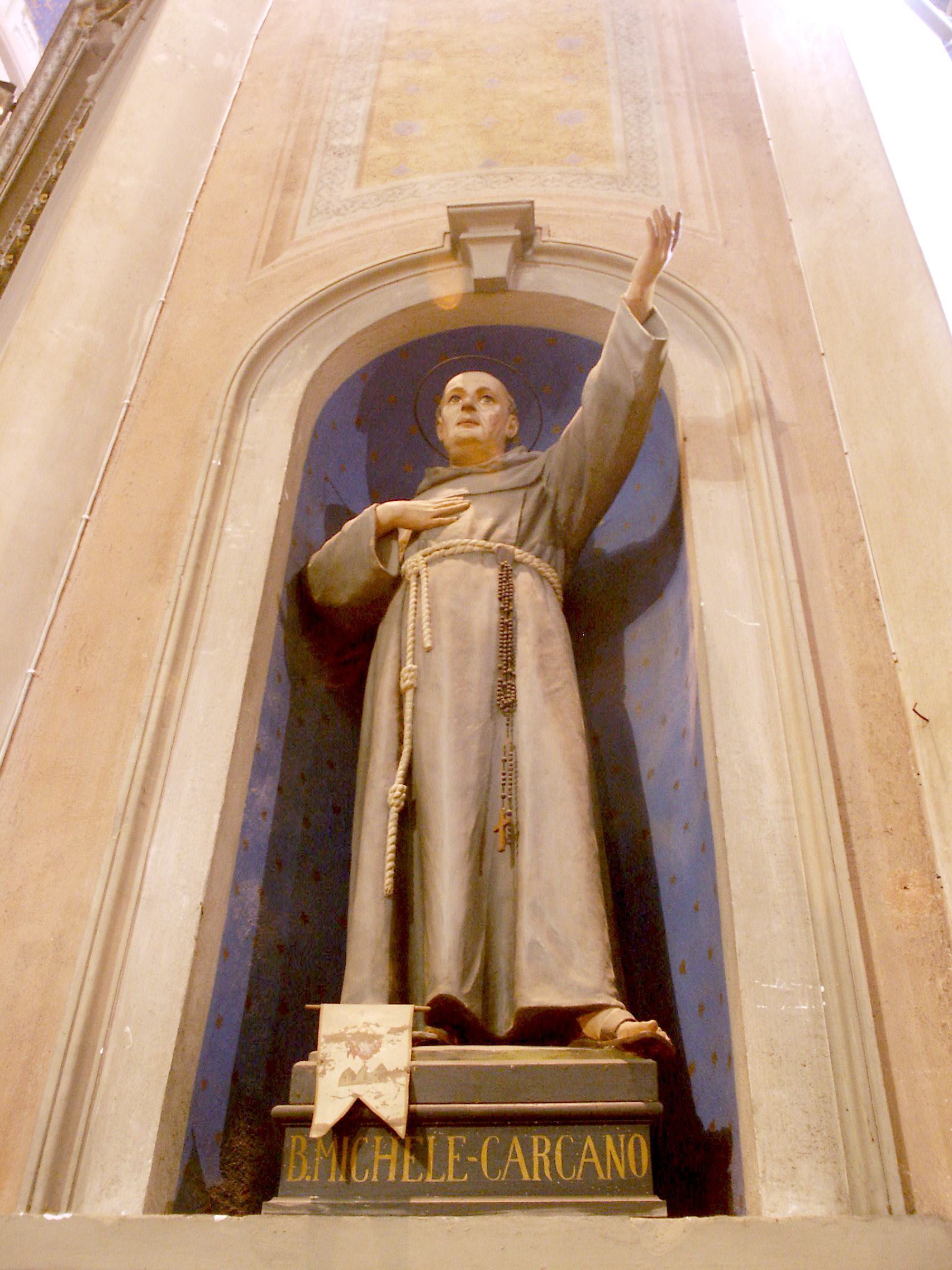 Statue of the Blessed Michele Carcano placed in the church of Saint Siro, where probably he was baptized.